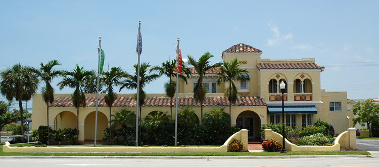 The Art and Culture Center of Hollywood, Hollywood, FL, USA